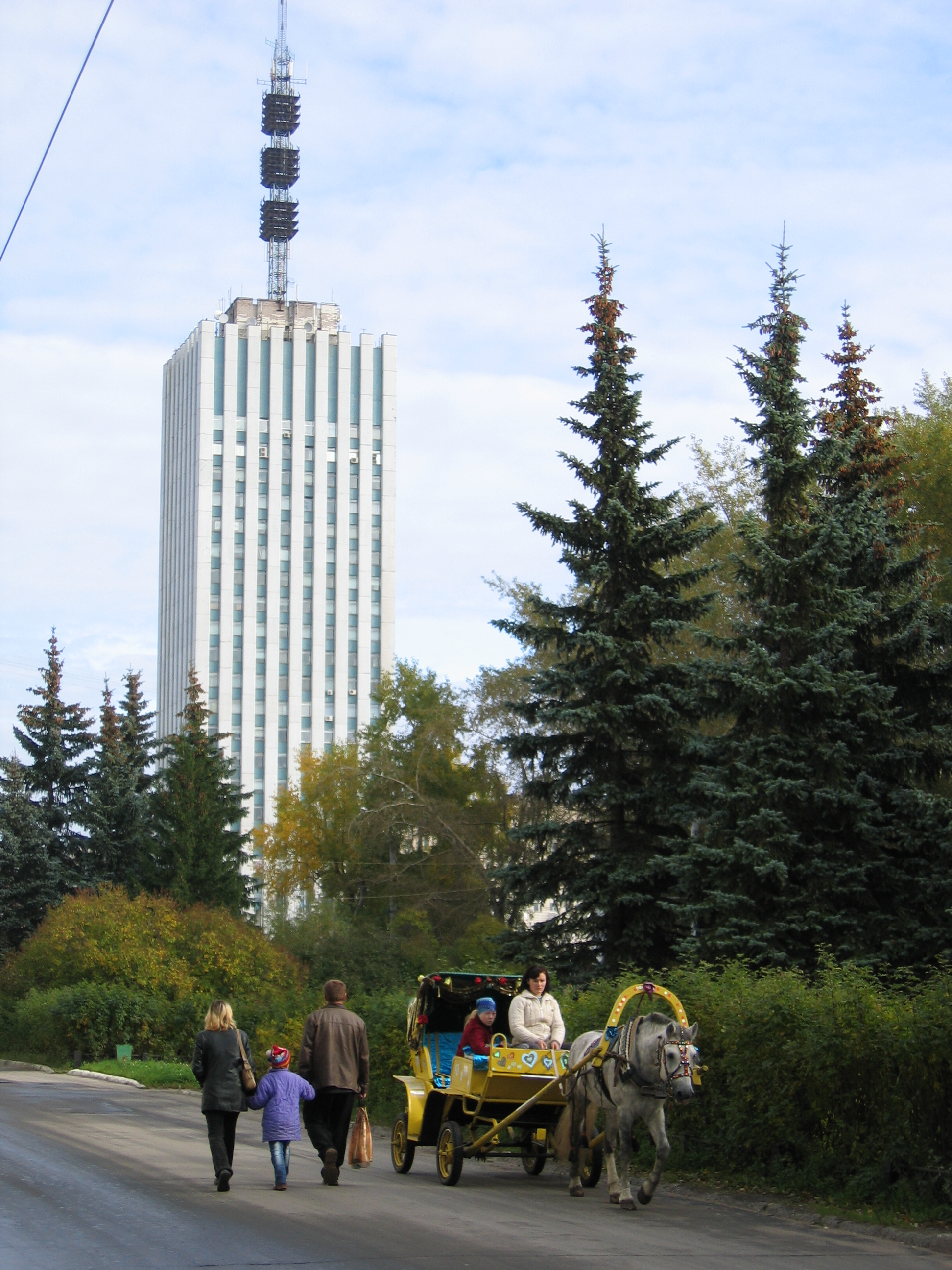 At the very centre of the city.